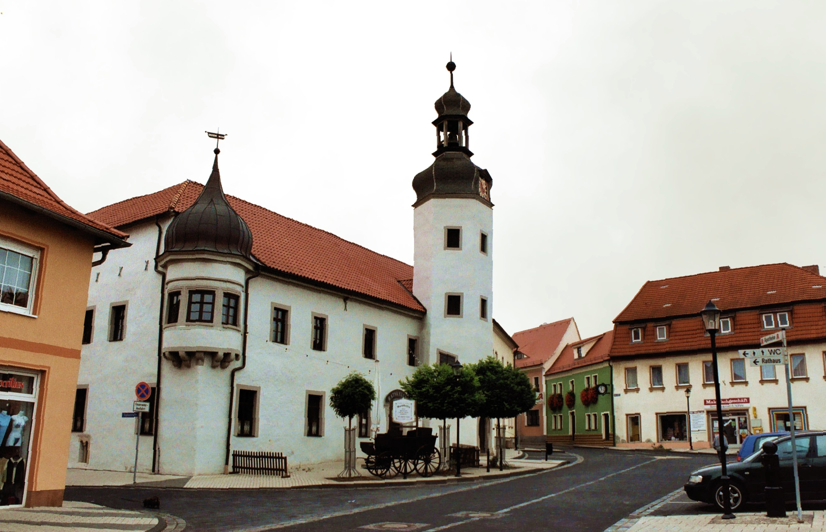 Gerbstedt, the town hall